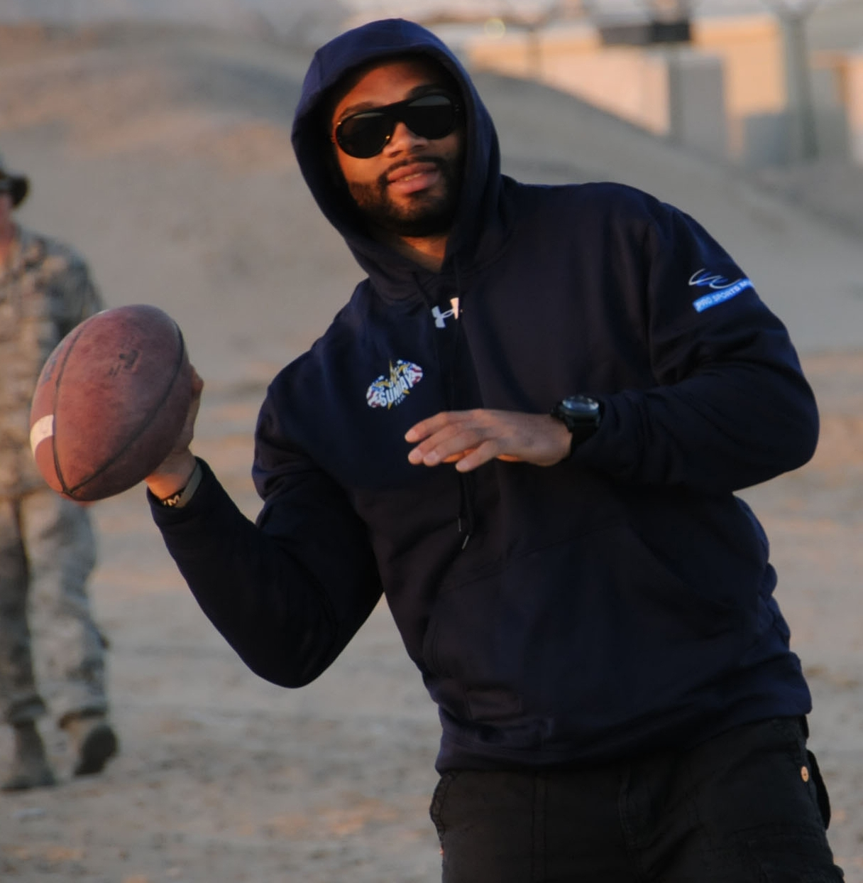 Seneca Wallace, quarterback for the Cleveland Browns, throws a football around with troops during a skills challenge in an undisclosed location, Southwest Asia, Feb 4, 2012. Wallace was part of a group of National Football League players that visited with the troops to help boost morale right before the 2012 Superbow XLVI Feb. 5